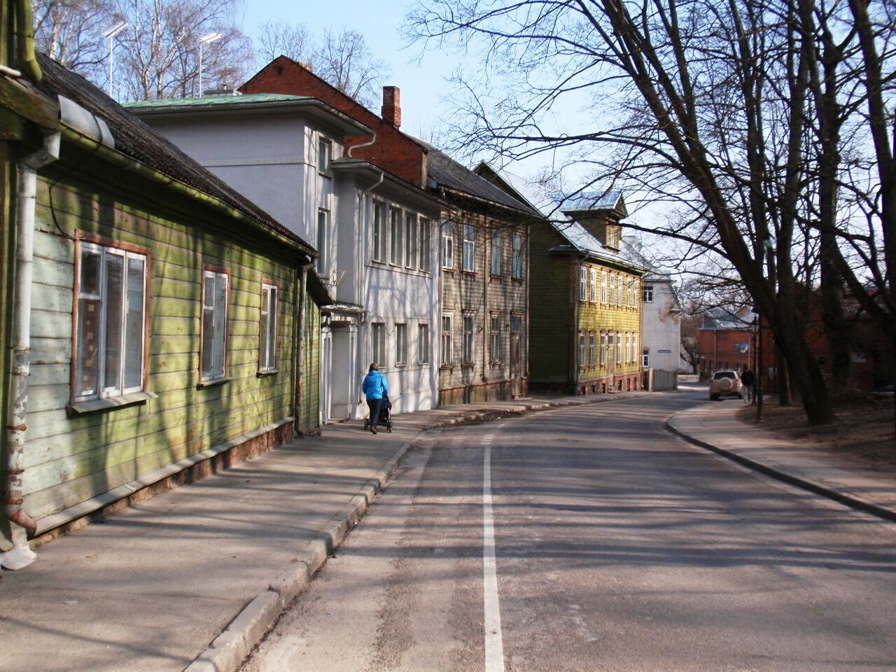 View at Karl Ernst von Baeri street in Tartu, Estonia